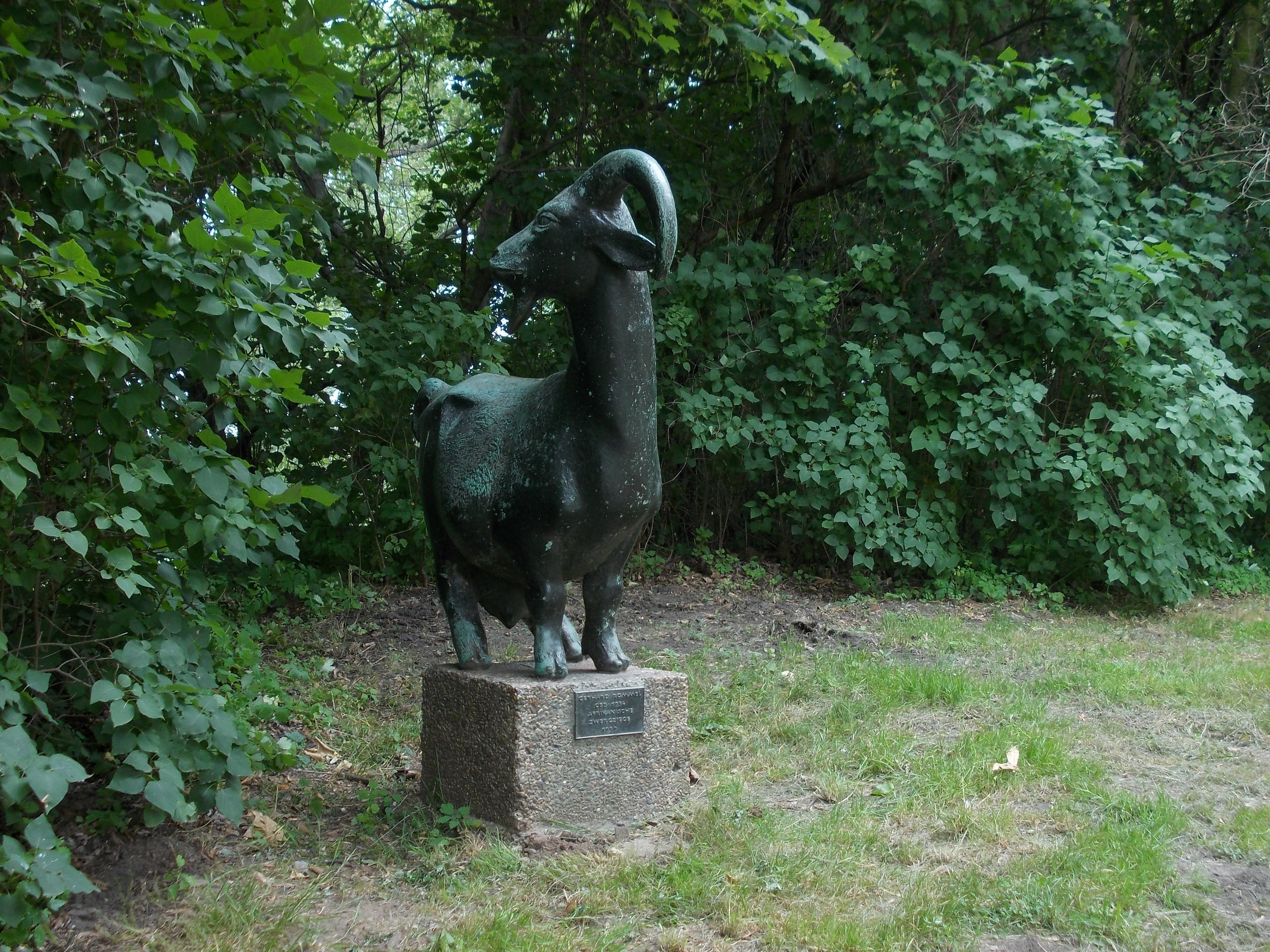 Sculpture Park in Leuna (district: Saalekreis, Saxony-Anhalt), "Pygmy goat" by Gerhard Rommel